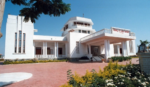 This is a photograph of Shrimad Rajchandra Ashram Dharampur located at Dharampur, Gujarat, India